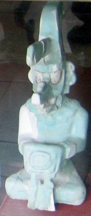 Effigy of K'awiil (God K) in the site museum at Tikal, Guatemala.